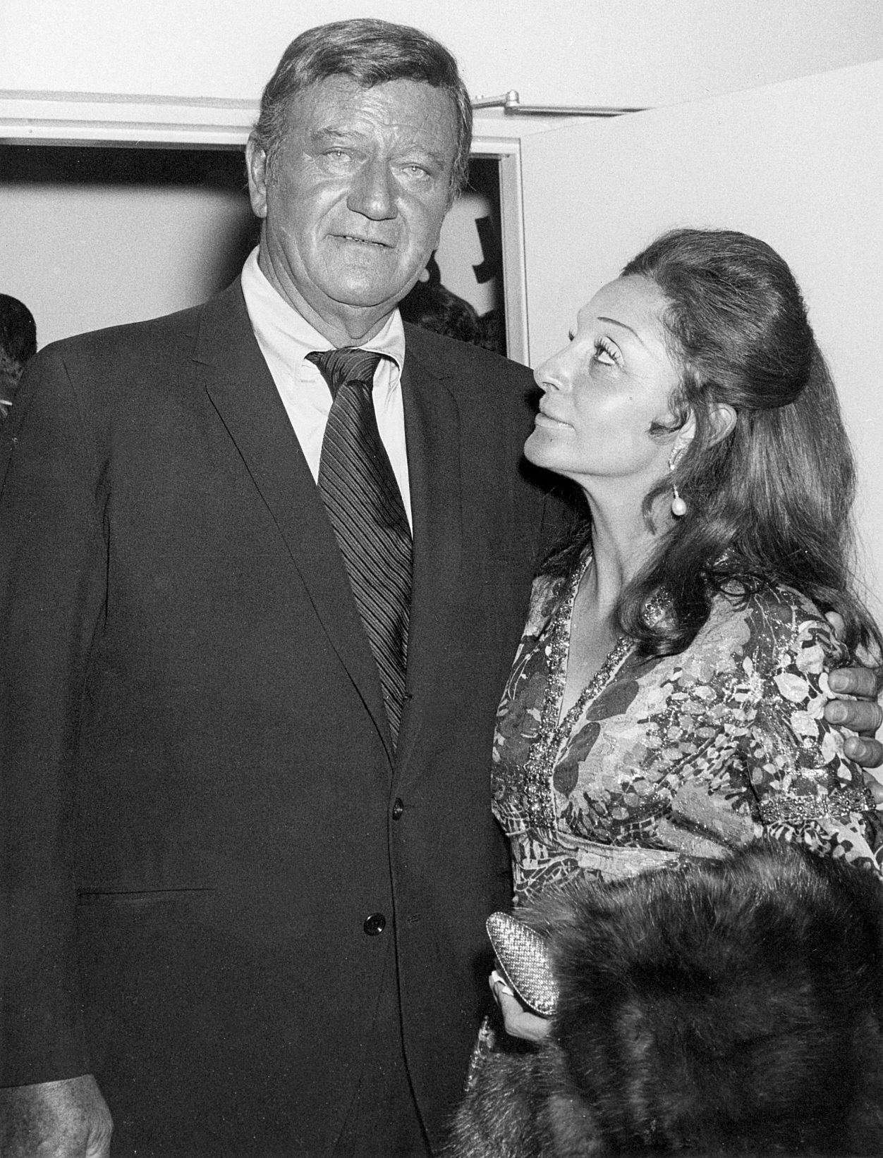 John and Pilar Wayne at the John Wayne Theatre opening at Knott's Berry Farm in 1971.